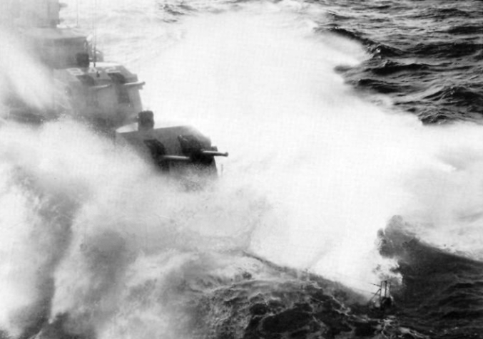 The U.S. Navy Gearing-class radar picket destroyer USS Fiske (DDR-842) in heavy seas. The photo was taken from the aircraft carrier USS Shangri-La (CVA-38).